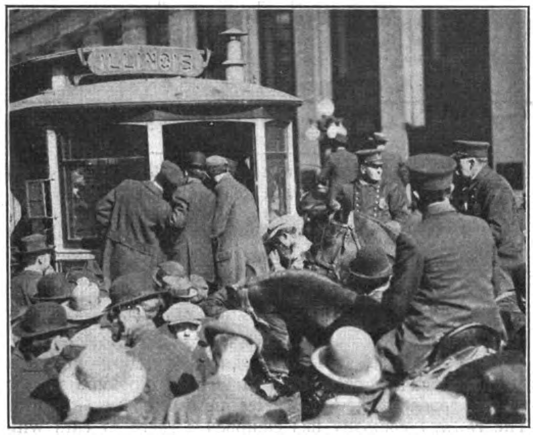 Crowd of strikers surrounding a street car and mounted police compelling the operators of the car to abandon it during the 1913 Indianapolis Street Car strike